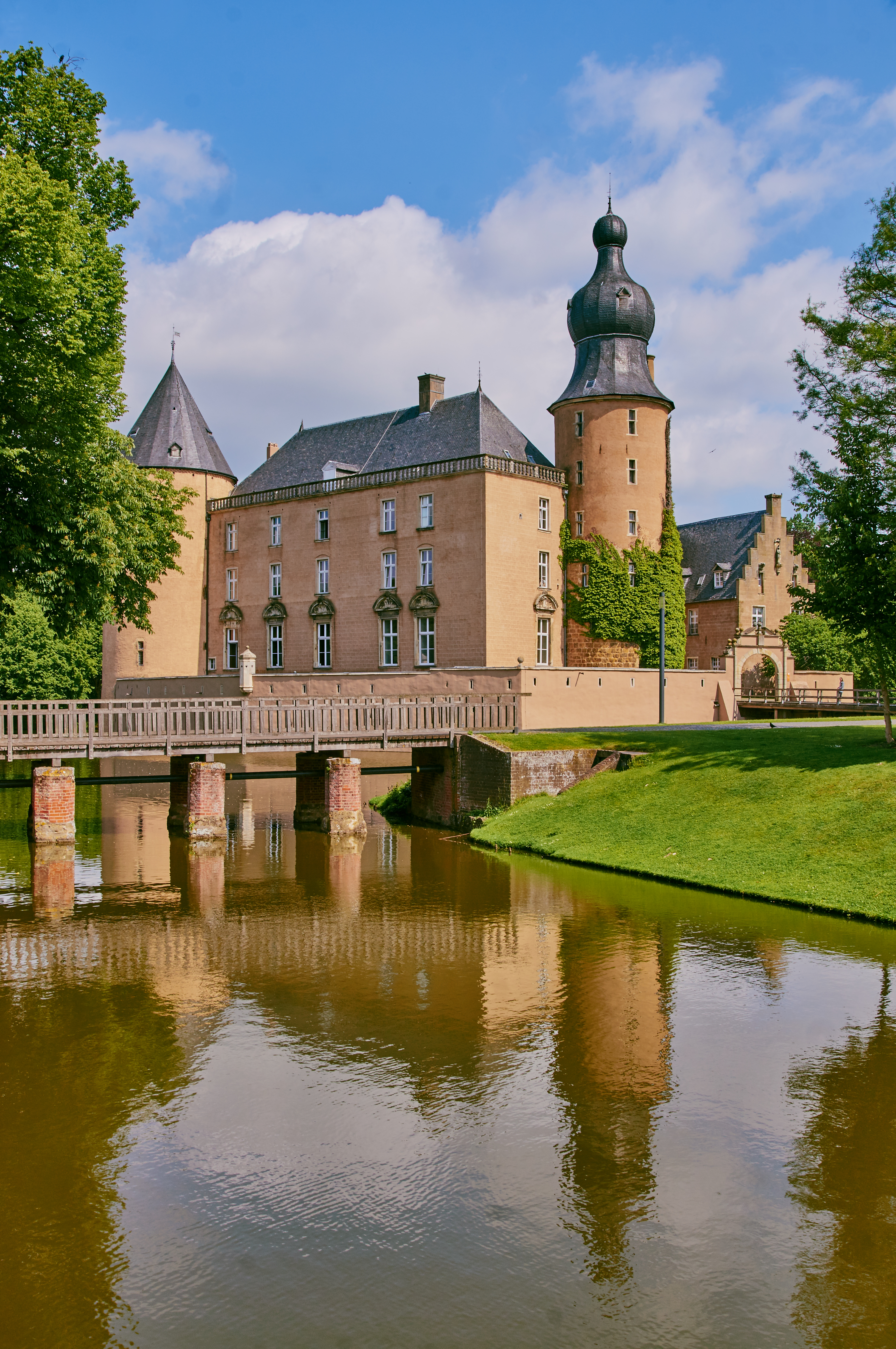 Wasserburg Gemen, Borken This is a photograph of an architectural monument. II 7